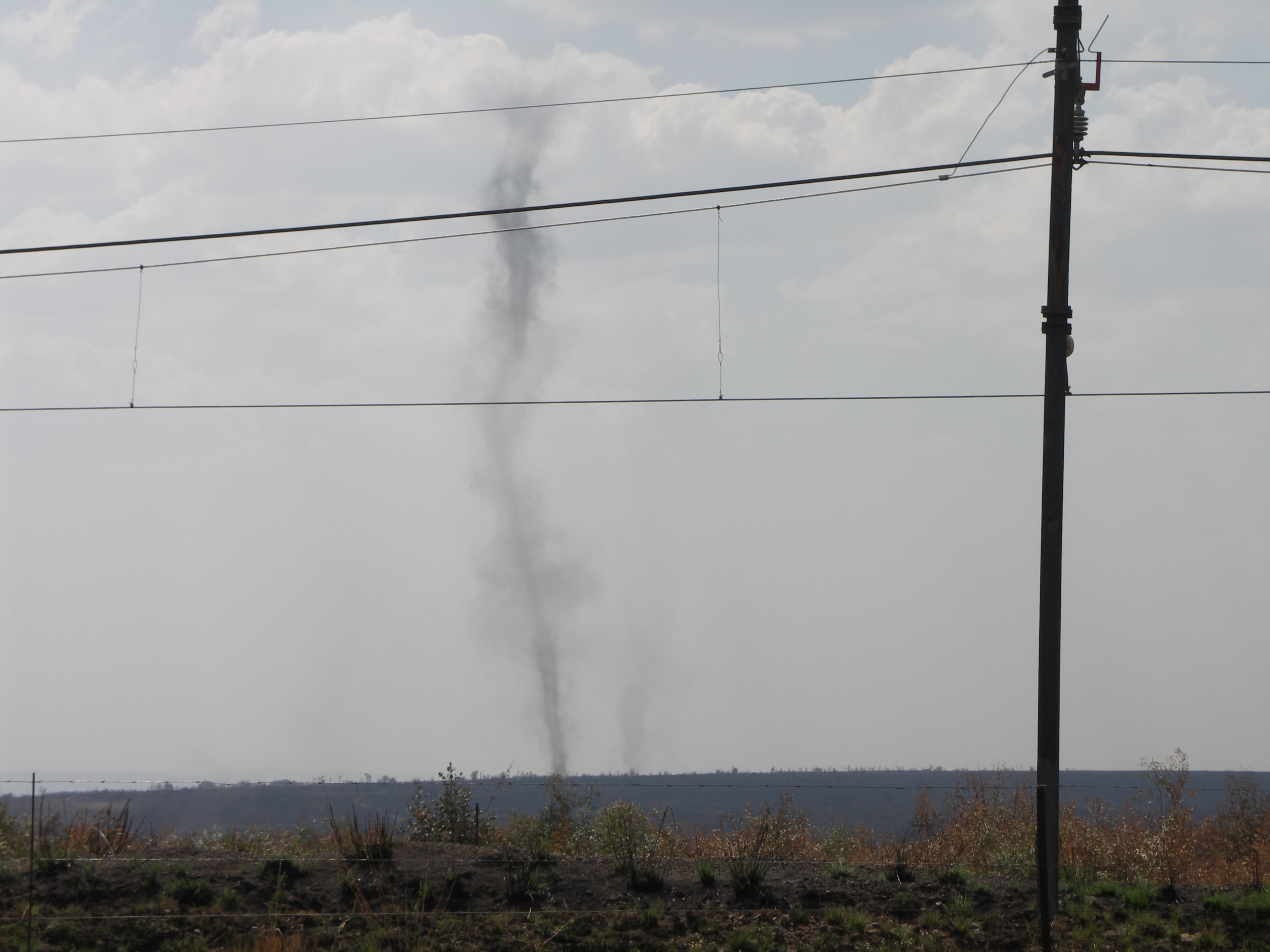 A whirlwind in Mpumalanga, South Africa